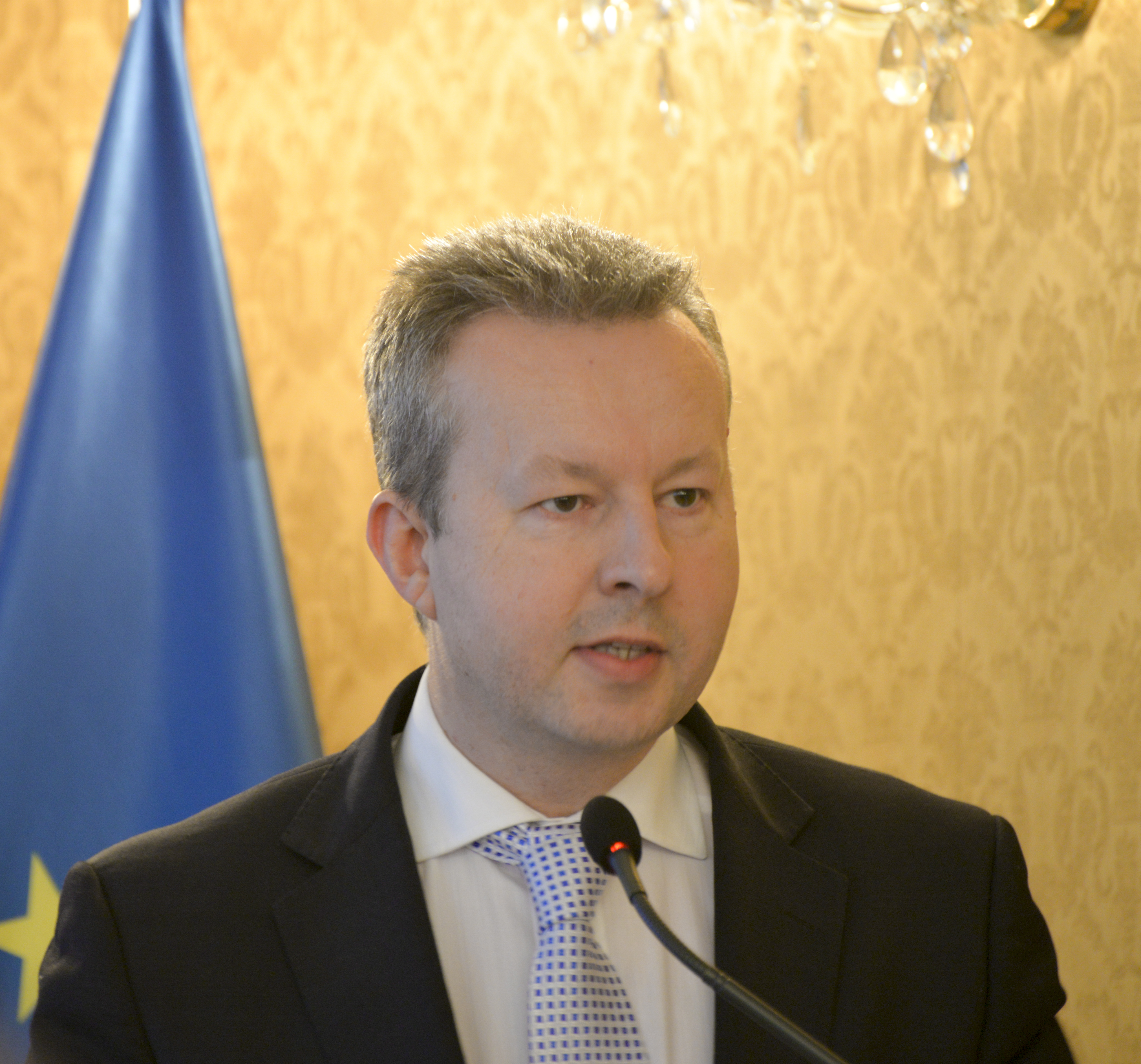 Richard Brabec during Sustainable development Forum in Lichteštejn Palace, Prague